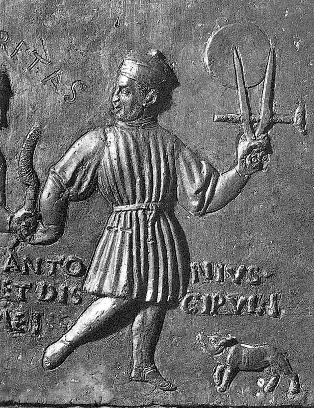 Self Portrait with Workshop Filarete Bronze plaquette Rome, Vatican City